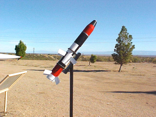 The Copperhead. From the source: This high explosive anti-tank projectile was fired from a standard 155mm howitzer. Once fired it homed in on reflected laser light which was beamed onto the target by a forward observer. Developmental testing was done at White Sands. U.S. Army